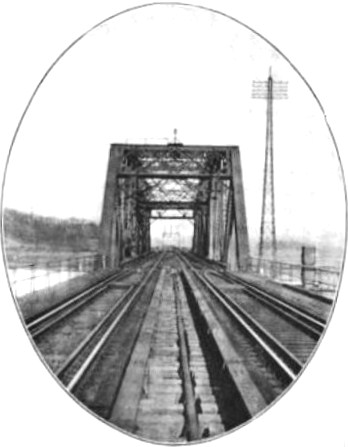 picture of Hackensack Drawbridge.